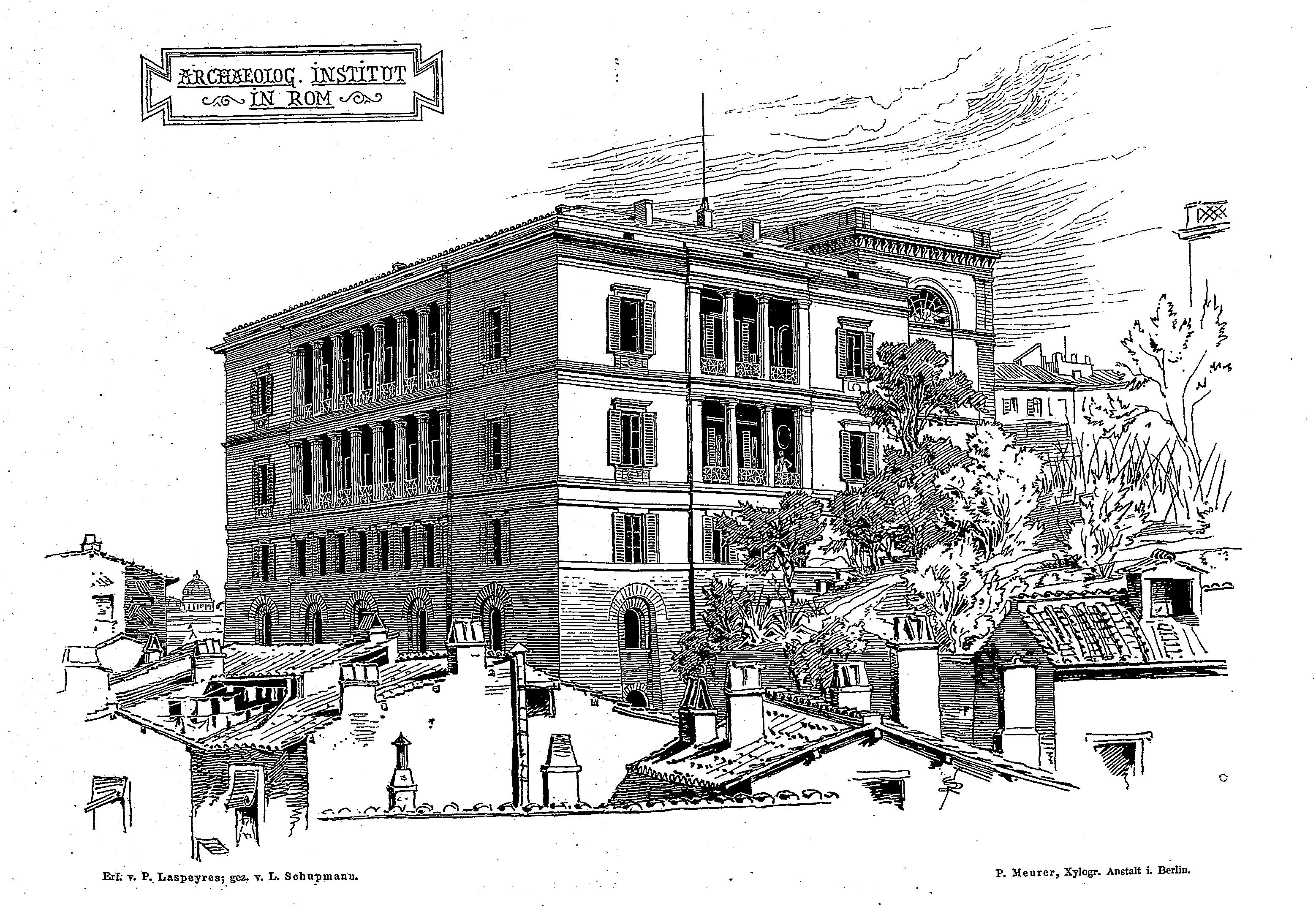 Drawing of the building of the Deutsches Archäologisches Institut, published in 1878